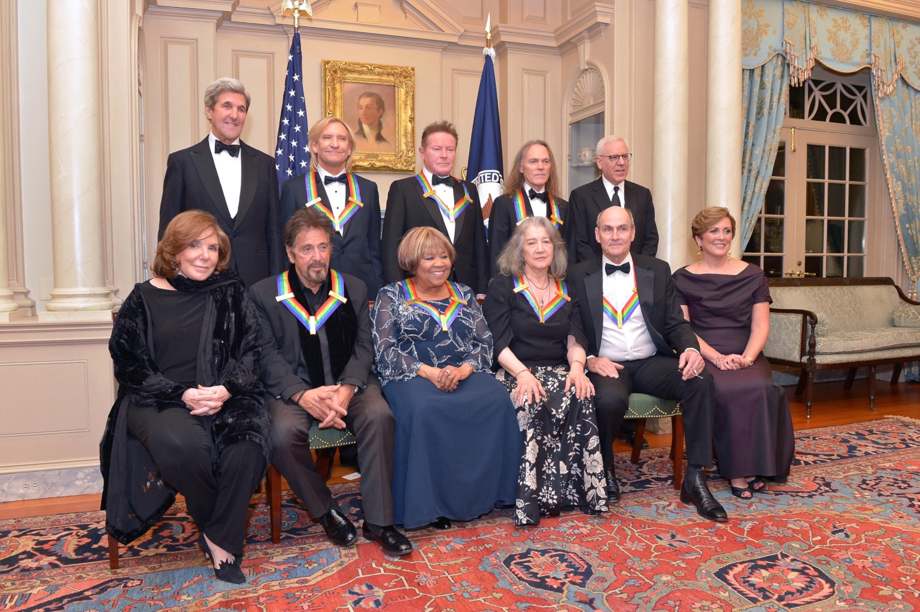 U.S. Secretary of State John Kerry poses for a photo with 2016 Kennedy Center Honorees at the Kennedy Center Honors Dinner at the U.S. Department of State, in Washington, D.C. on December 4, 2016. [State Department Photo/Public Domain]